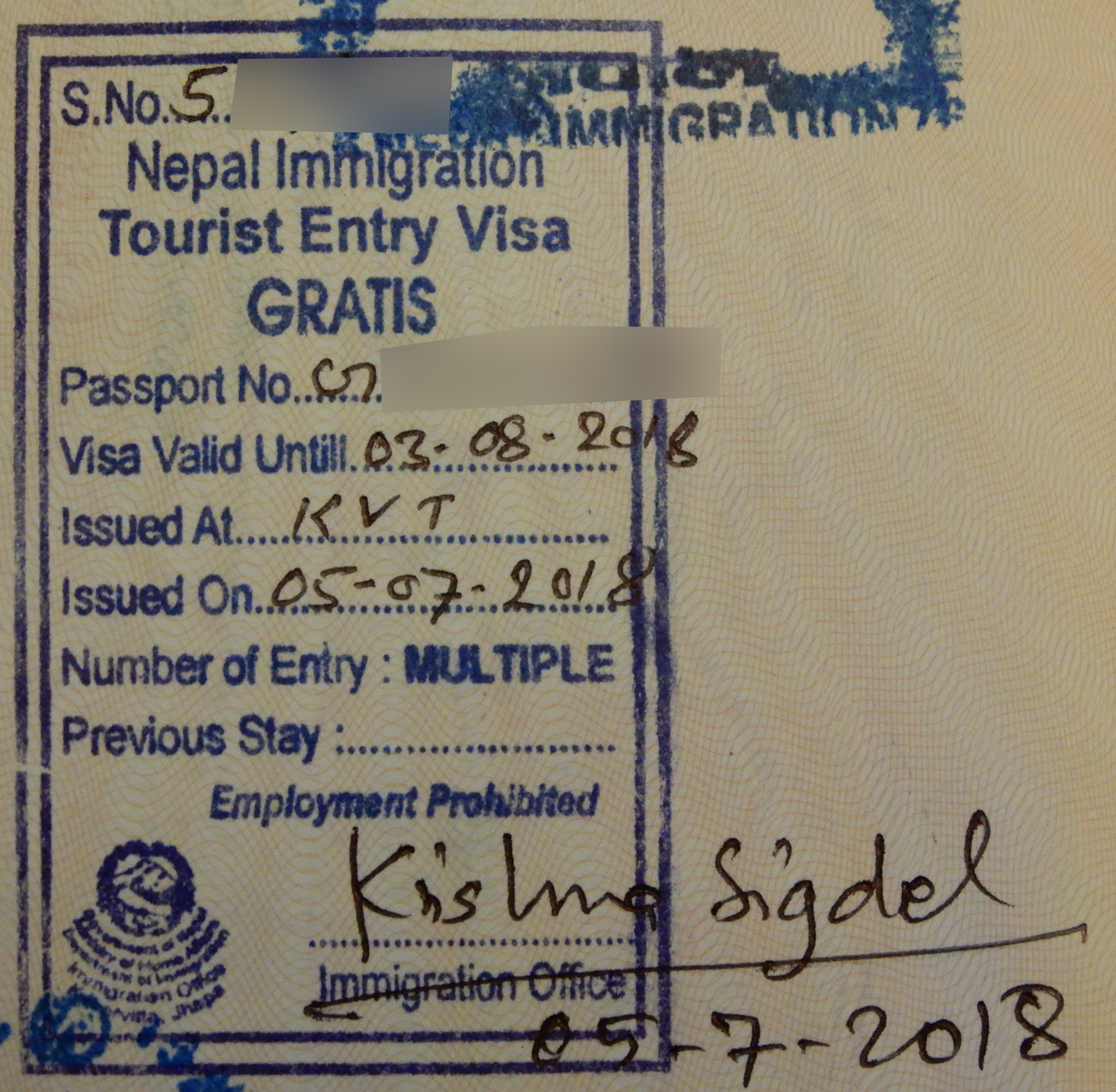 Nepal free visa on arrival on a Chinese passport, issued at Kakarbhitta immigration office